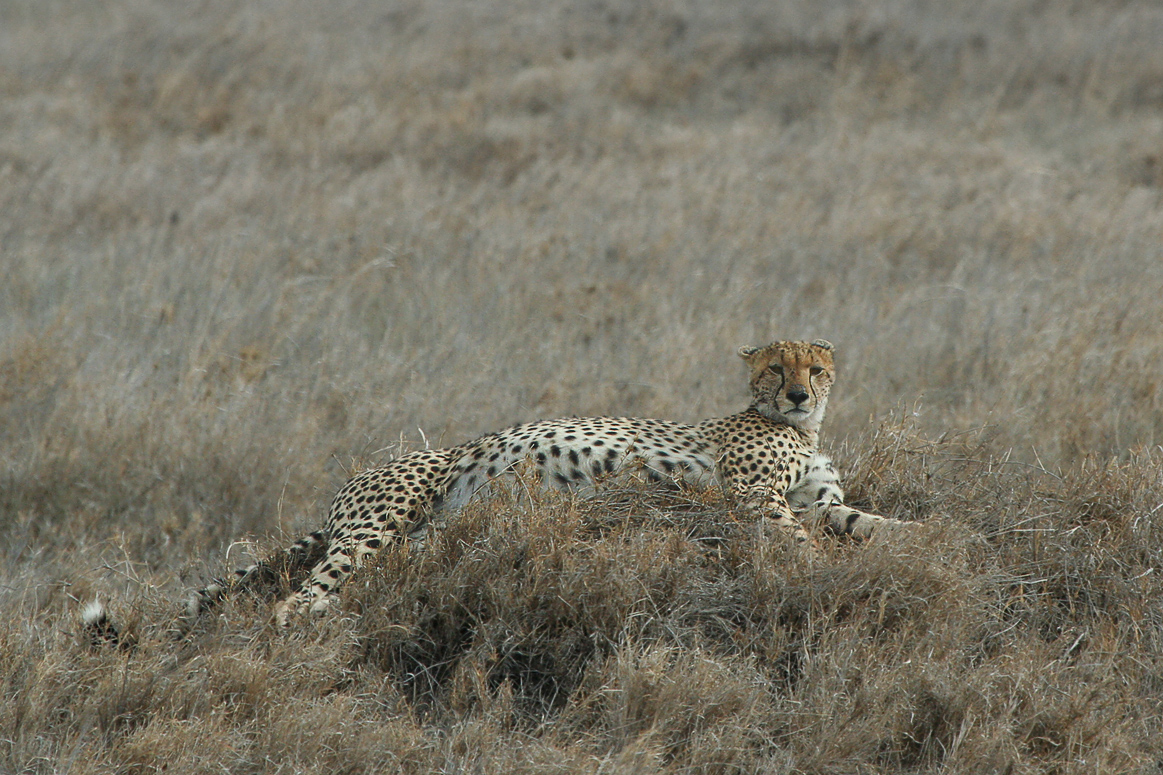 Acinonyx jubatus of Serengeti National ParkPhoto taken with a Canon 350D, 100-400mm f/4.5-5.6 L IS